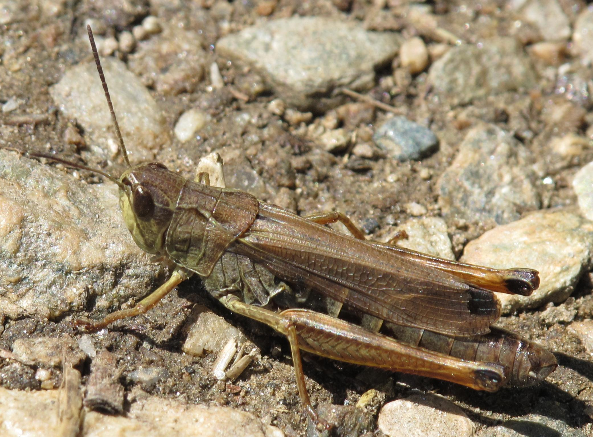 female specimen of Stauroderus scalaris, between Alterhaupt and Hohbalmen near Zermatt (VS, Switzerland)